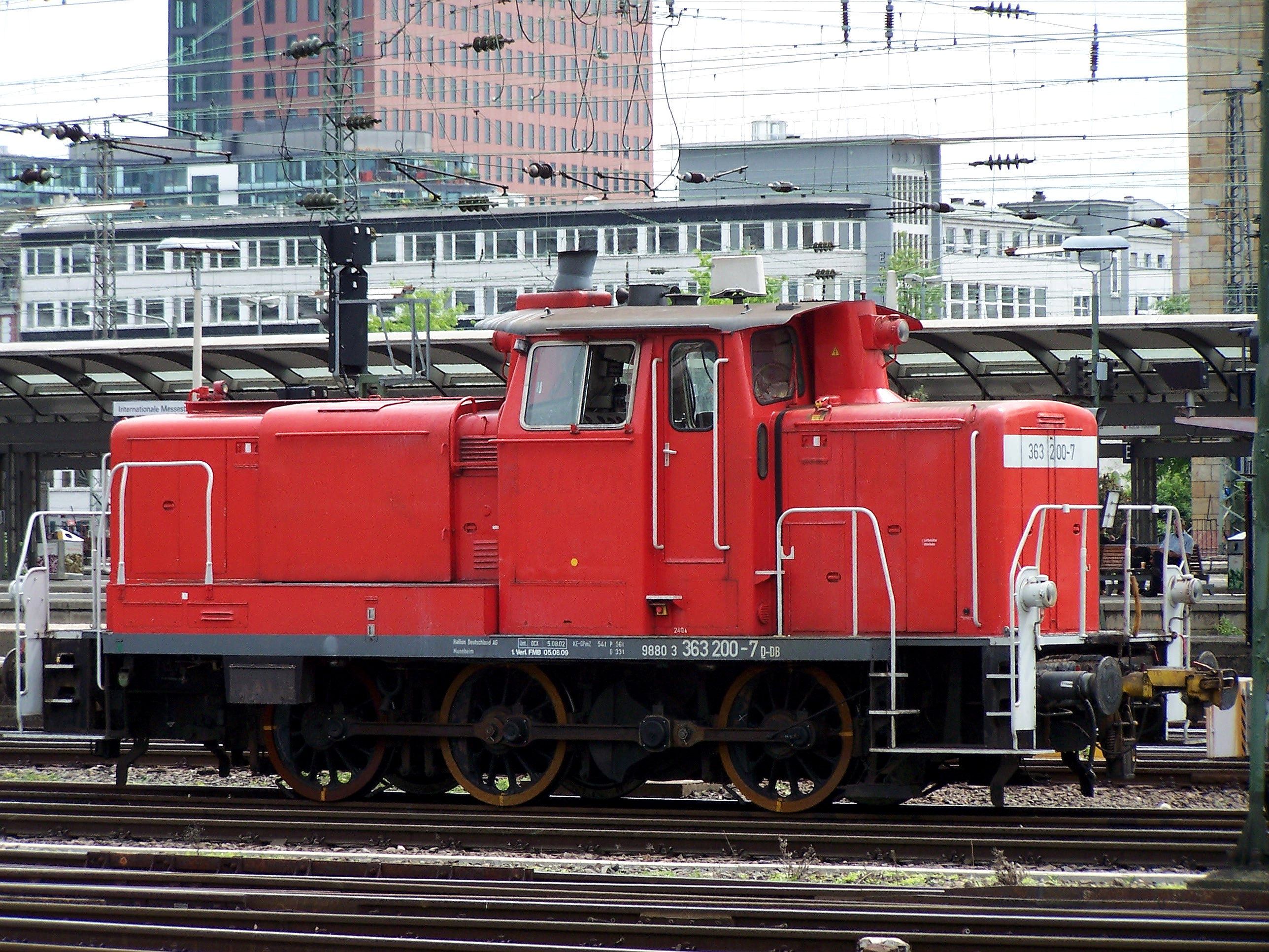 Diesel locomotive 363 200 at the Frankfurt Central Station in Frankfurt am Main-Bahnhofsviertel